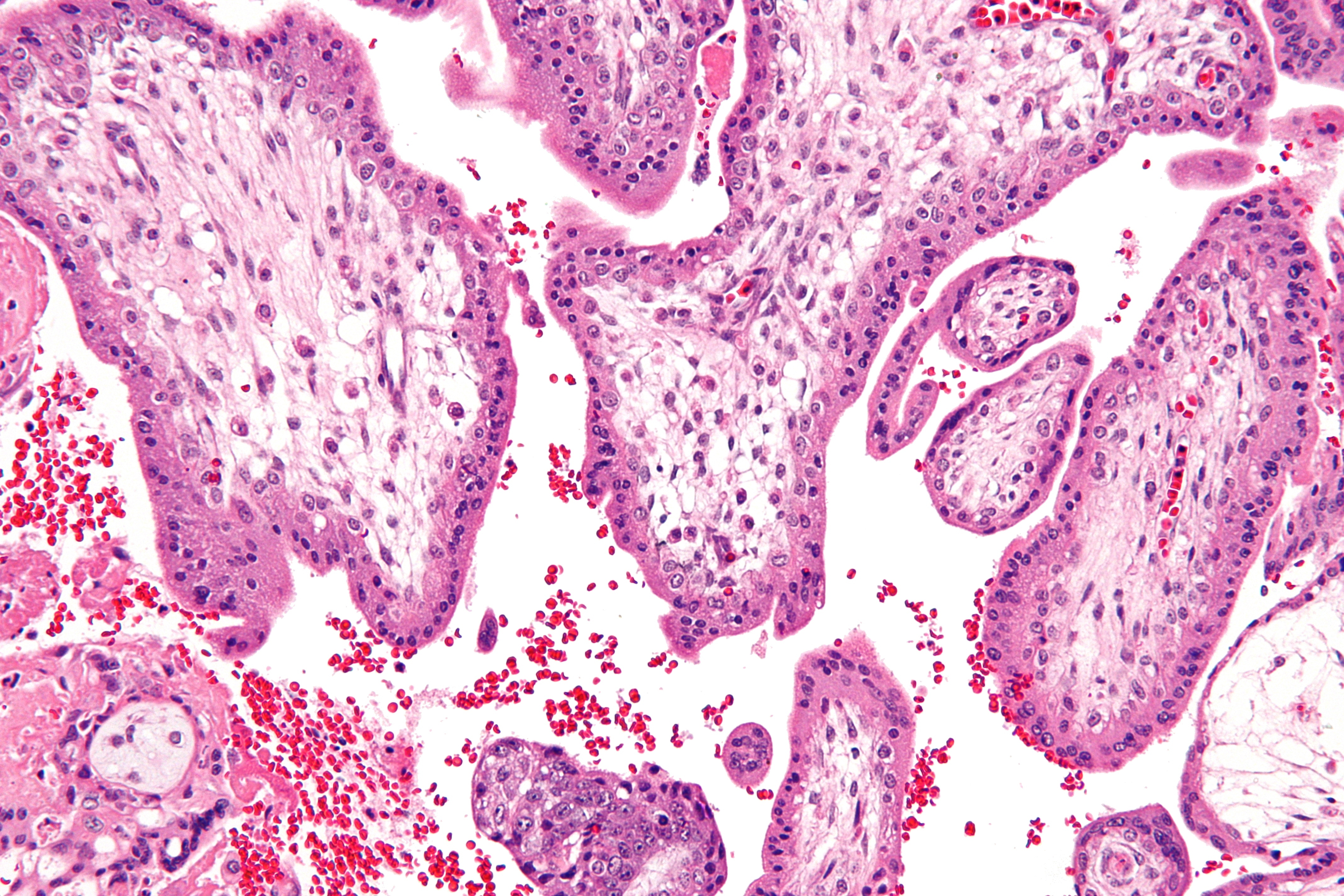 High magnification micrograph of products of conception (chorionic villi). H&E stain. Related images Low mag. Intermed. mag. Low mag. Intermed. mag. High mag. Very high mag.